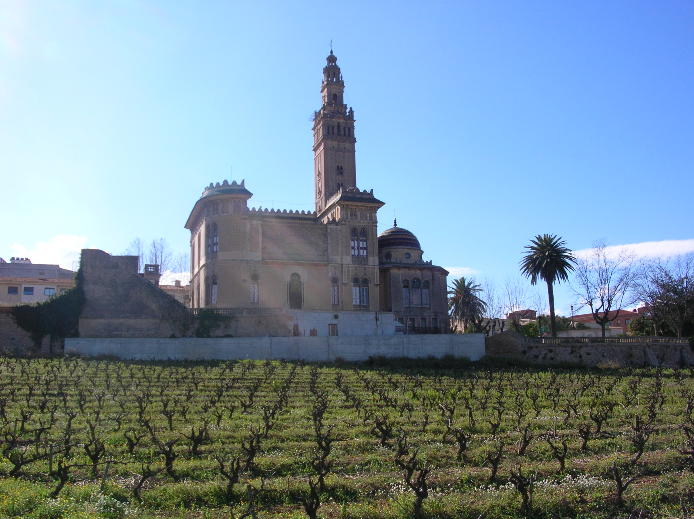 The Giralda in "L'Arboç del Penedès", Catalonia.(This building is a copy of the same name building in Sevilla, Spain)